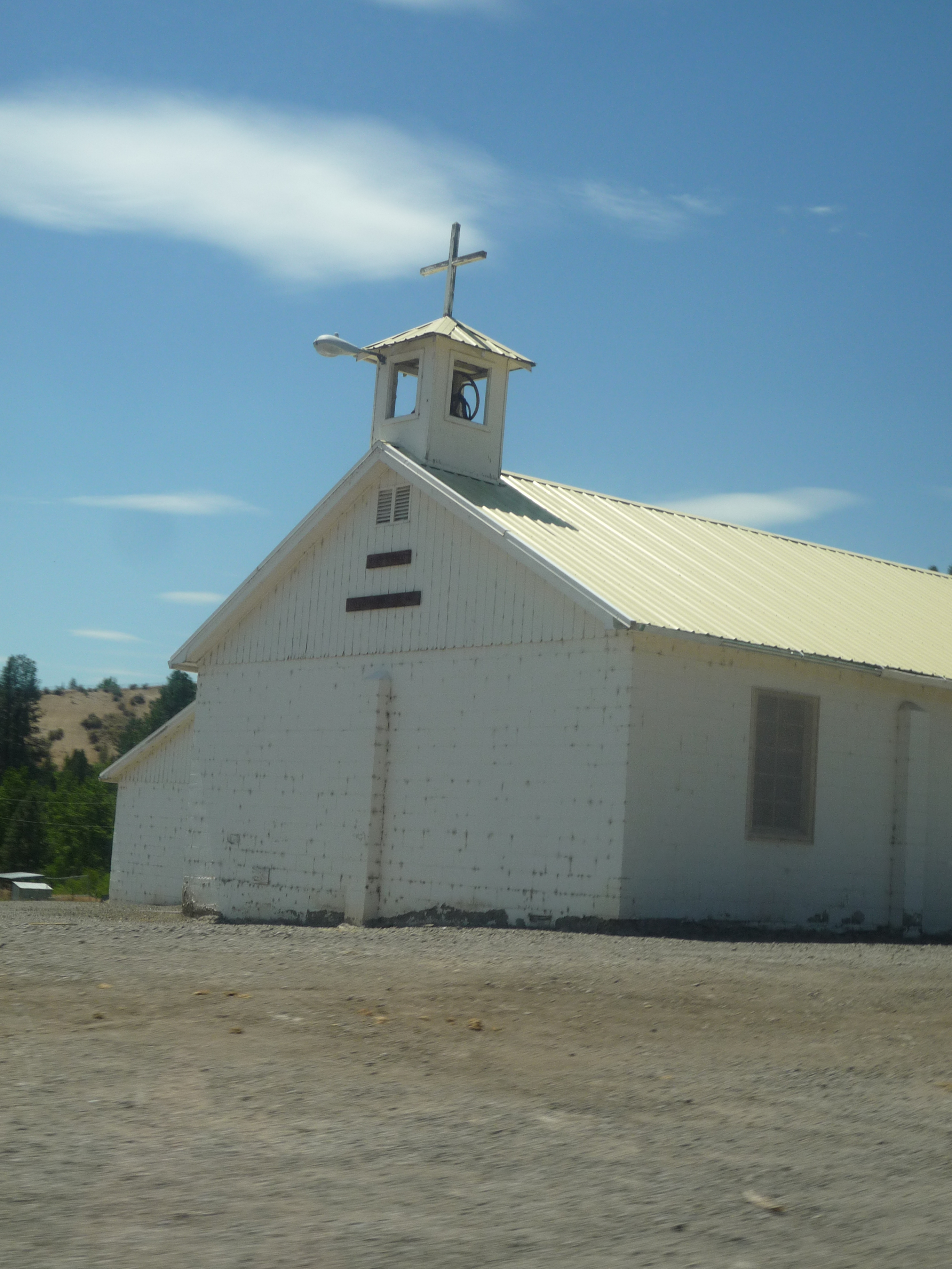 A church in Warm Spings, Oregon